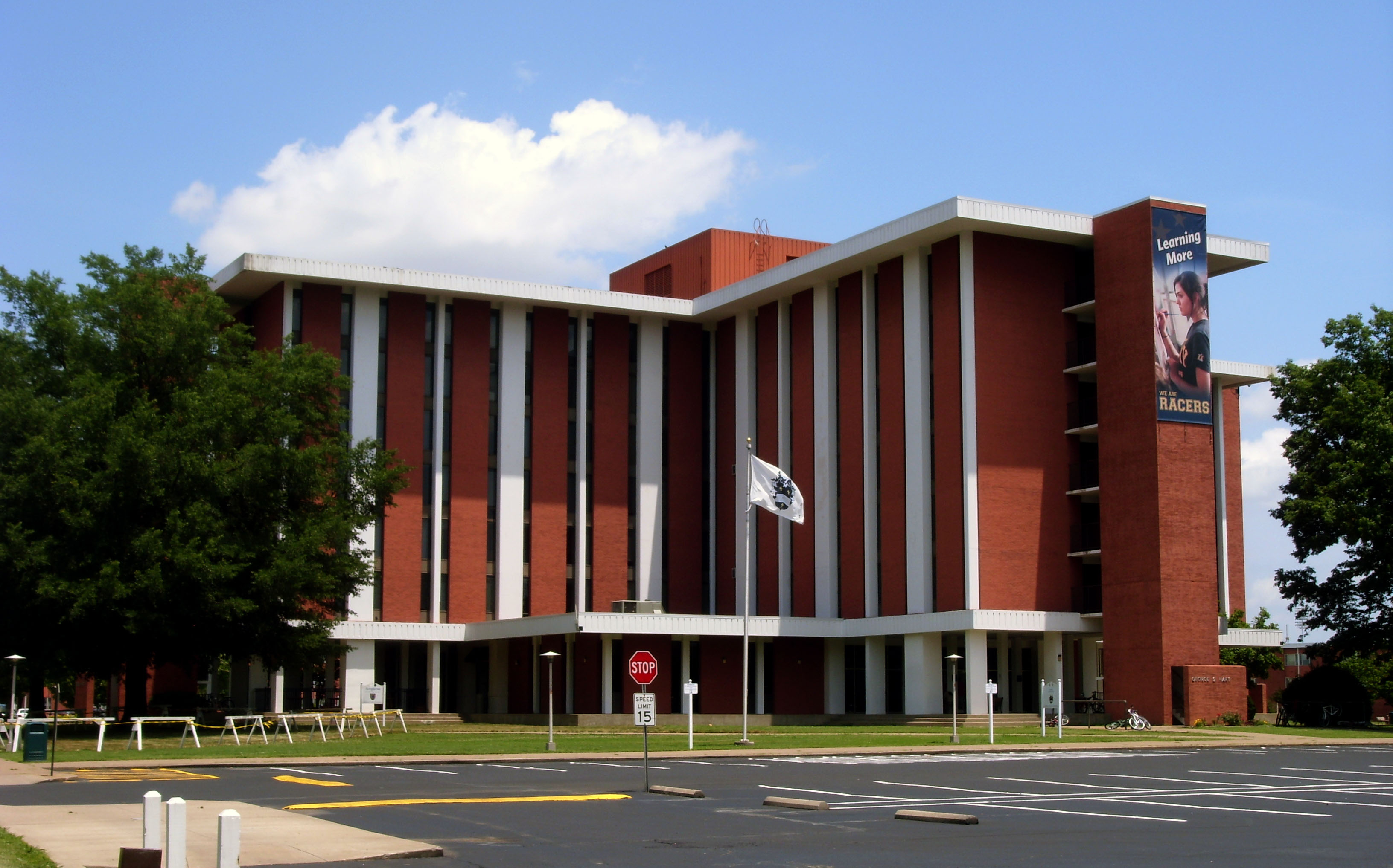 Hart College at Murray State University